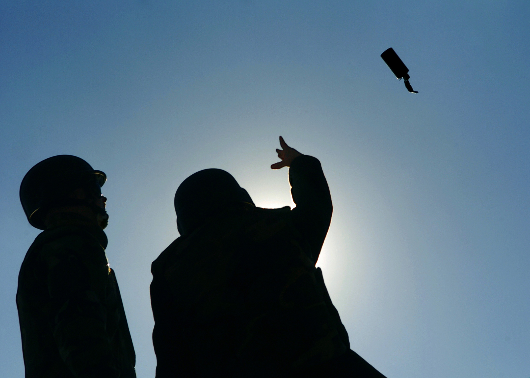 Atlantic Ocean (Feb. 14, 2006) - Gunner's Mate 3rd Class Megan Chestnut, throws a live MK 3A2 offensive hand grenade under the watchful eye of Master-at-Arms 1st Class Levi White, during a grenade familiarization practice held on the fan tail of the nuclear-powered aircraft carrier USS Enterprise (CVN 65). Enterprise is currently underway conducting routine carrier qualifications. U.S. Navy Photo by Photographer's Mate 2nd Class Milosz Reterski (RELEASED)